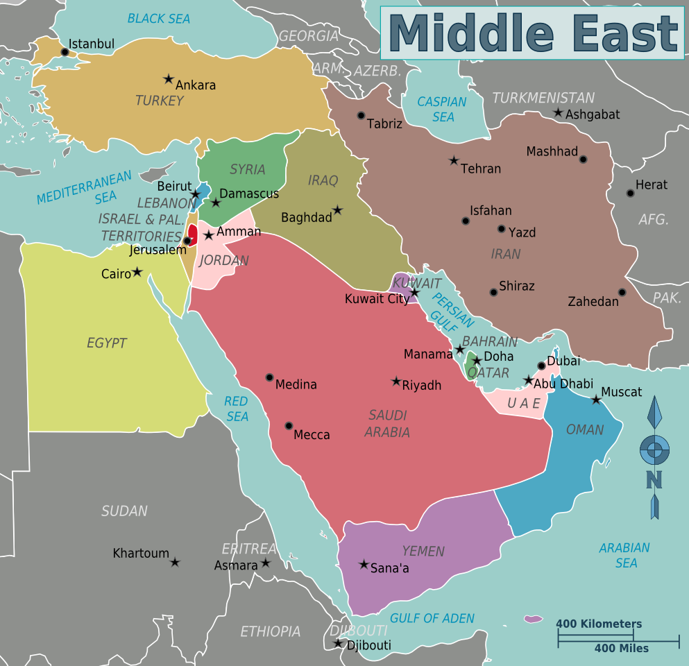 Map of the Middle East for use on Wikivoyage, English version. Note that this in no way comments on the political situation, nor seeks to include or exclude countries for any reason other than breaking the world up into reasonable travel regions.